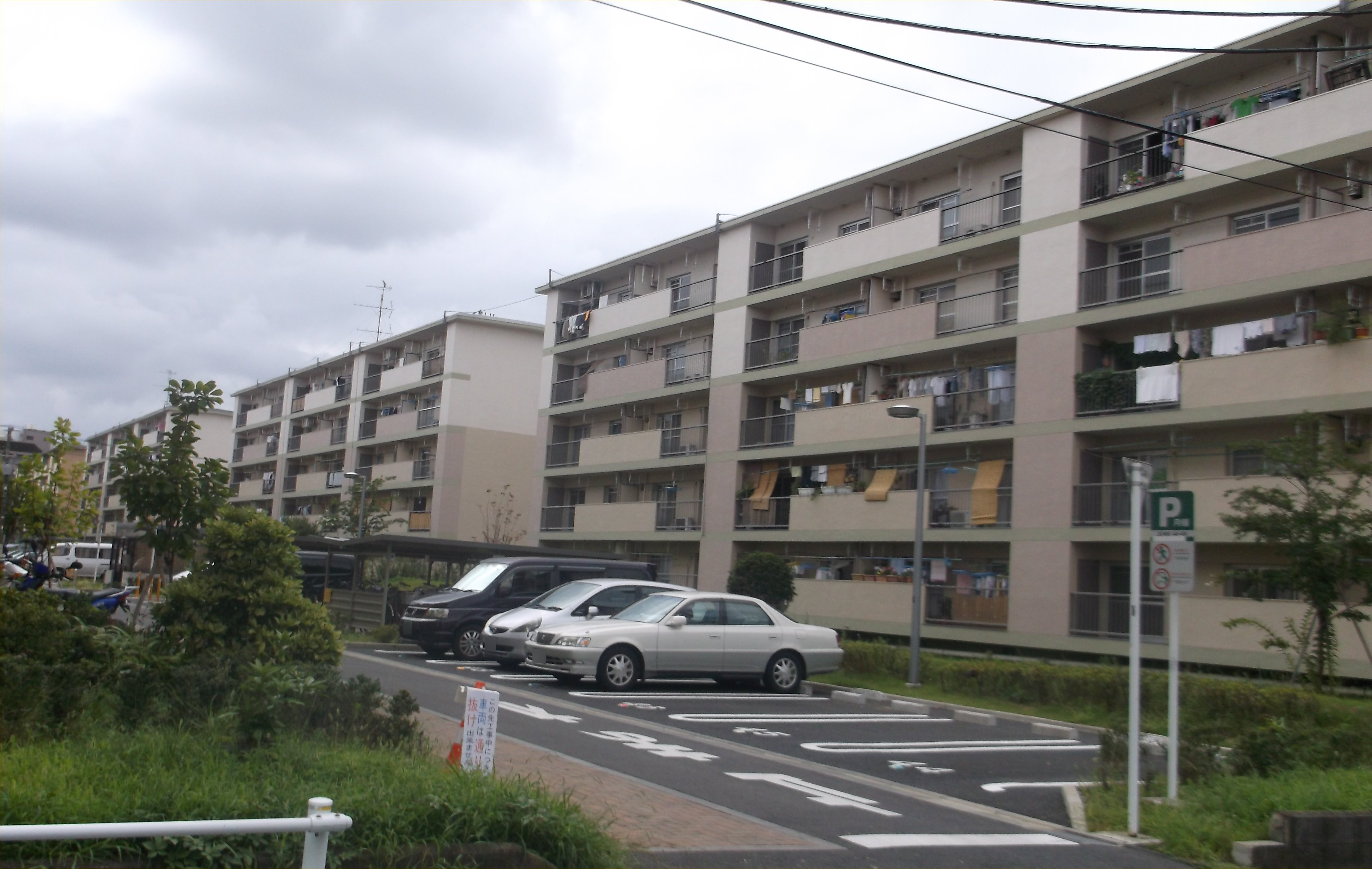 A photo of an overview of Hanahata Apartment Blocks,Hanahata,Adachi-ku,Tokyo,Japan.